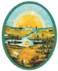 Coat of arms of the city of La PLata in Buenos Aires Province.